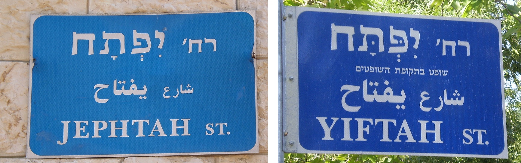 Two different street signs for the same street in Yiftah_street,_Jerusalem